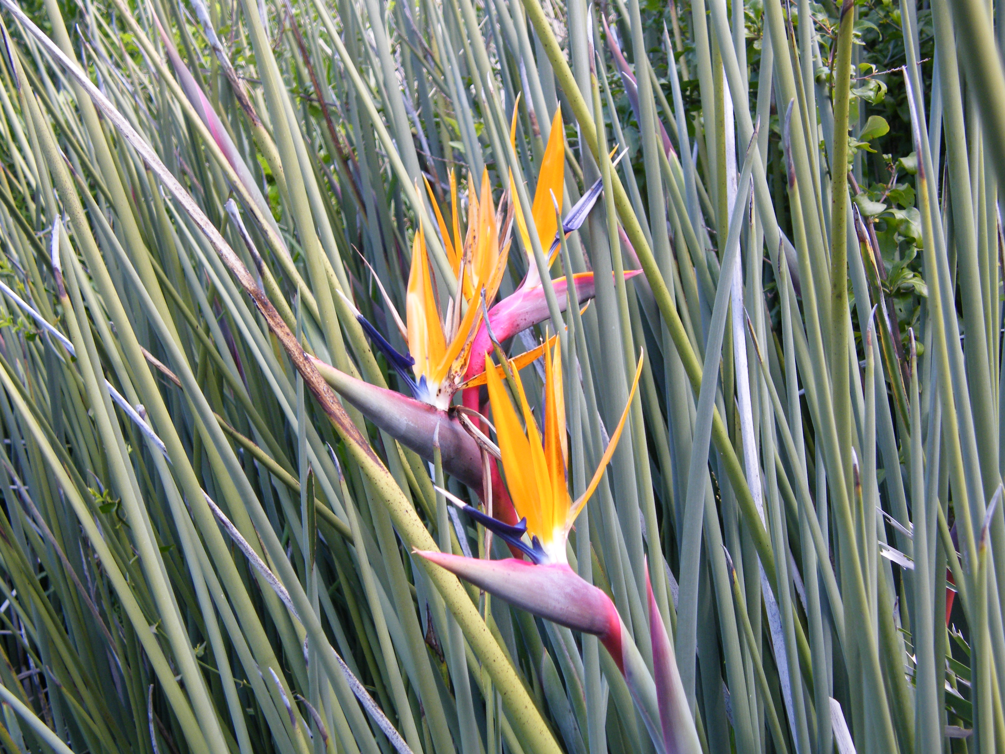 Flowers of the Rush-leaved Strelitzia in the Kirstenbosch Botanical Gardens, Cape Town. This drought resistant Strelitzia occurs sparsely near Uitenhage, Patensie and just north of Port Elizabeth.